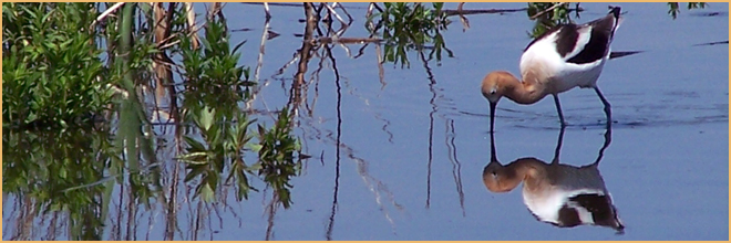 The Cold Springs National Wildlife Refuge, located east of Hermiston, Oregon, is a preserve for native and migratory birds. Credit: USFWS